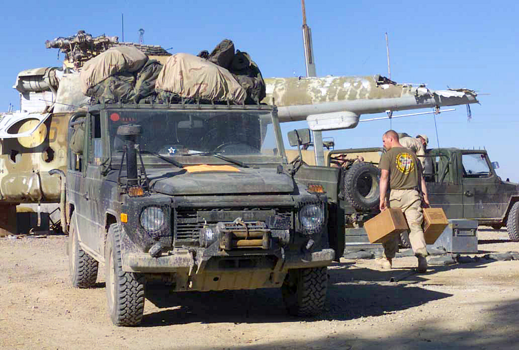 Marines with 2nd Combat Engineer Battalion, Battalion Landing Team 3/6, 26th Marine Expeditionary Unit (Special Operations Capable) load their Mercedes G IFAV (Interim FAST ATTACK VEHICLE) in preparation to turnover their bivouac site to Army soldiers from the 101st Air Assault Division at Kandahar International Airport, Kandahar, Afghanistan, during OPERATION ENDURING FREEDOM. In the background are the remains of an Mi-18 (HIP H) Soviet helicopter.